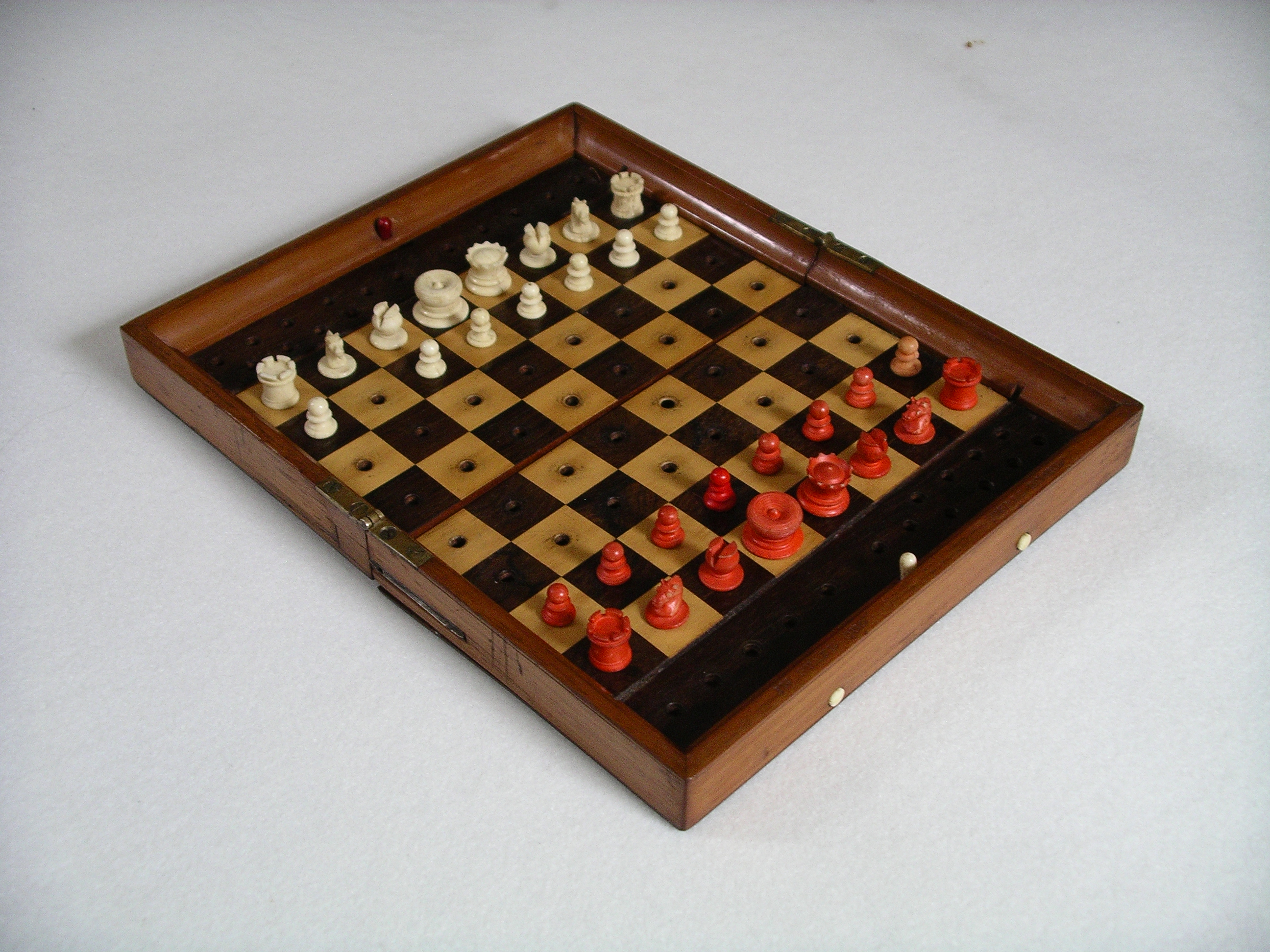 Oblique view of an antique Jaques of London portable chess set. The pieces are bone and each has a brass pin to peg into the board. The squares on the board are each 1 inch by 1 inch. "In Statu Quo", the name of the chess set is stamped in the wood.